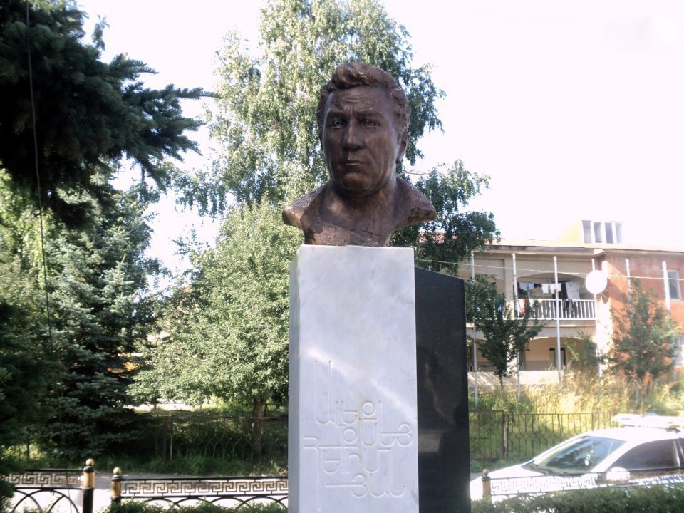 Alexey Heqimyan's bust, Tsaghkadzor